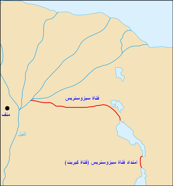 Old Sesostris canal